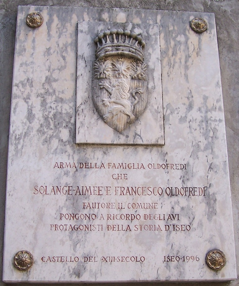 Coat of arms of Oldofredi's family. Castle of Iseo